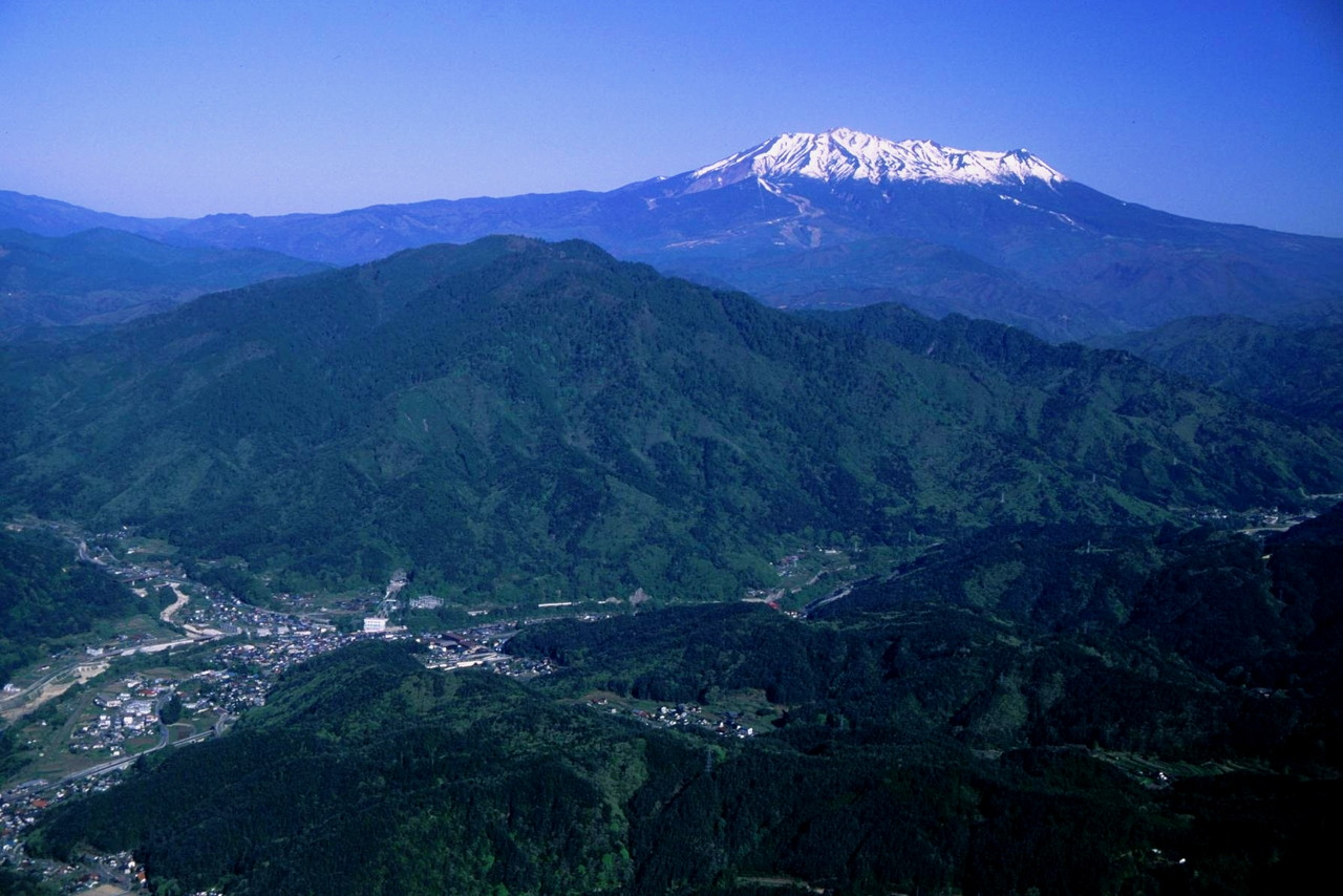 Mount Ontake from Mount Kazakoshi (Kazakoshi-yama)